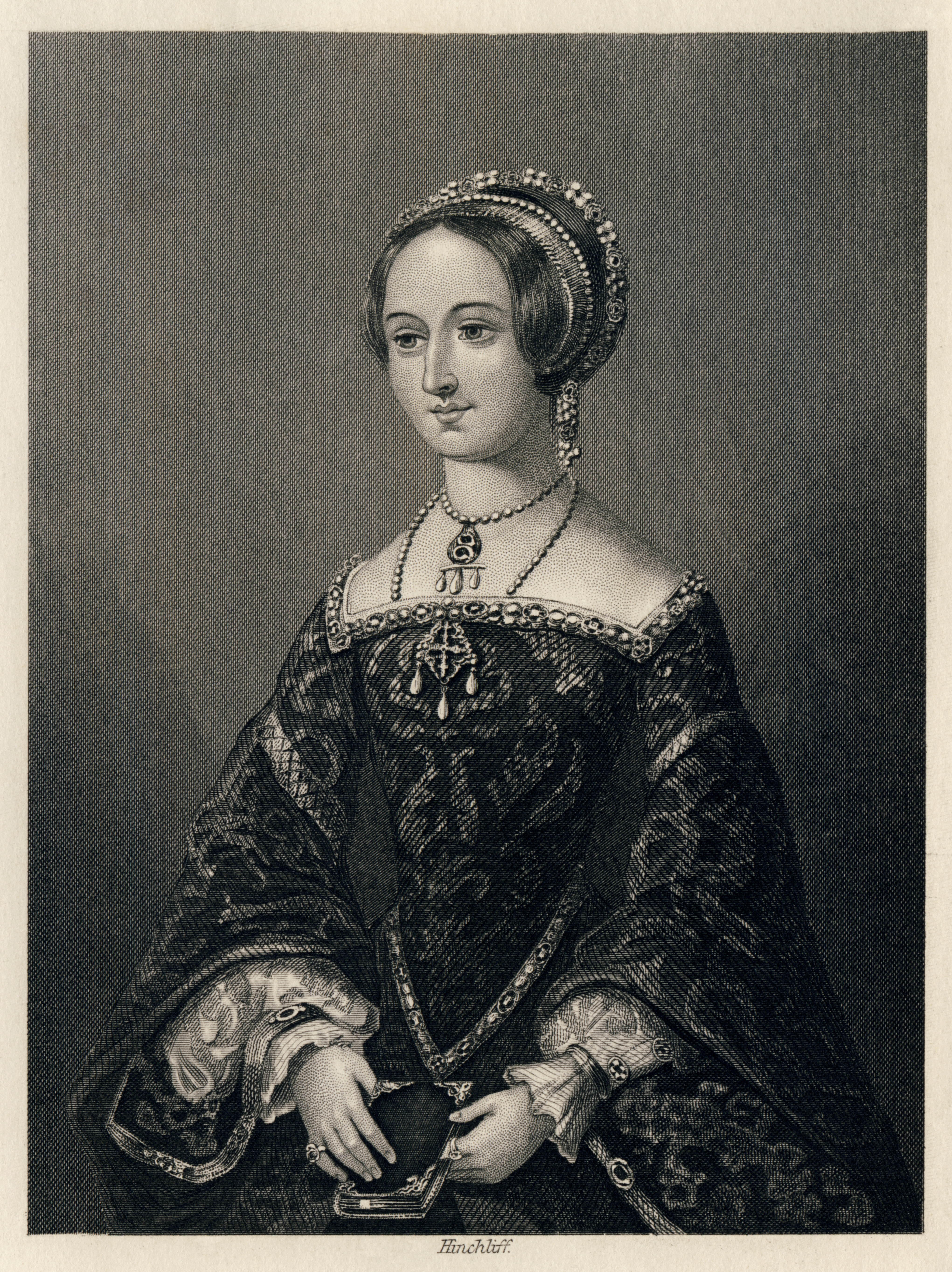 Marguerite, Queen of Navarre, in an engraving by Hinchliff. From an 1864 edition of the Heptameron